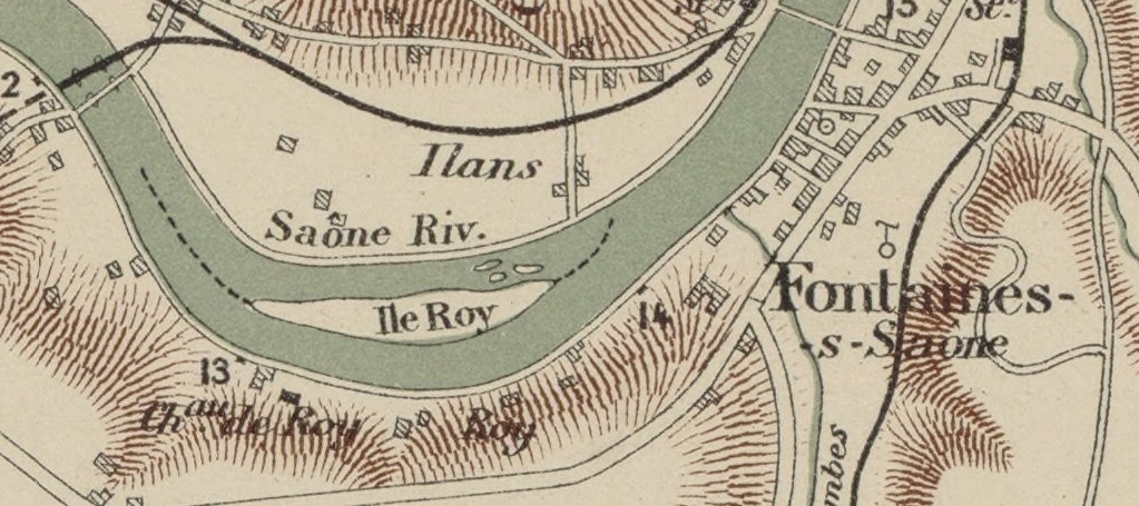 Map of Roy Island on the Saône river.